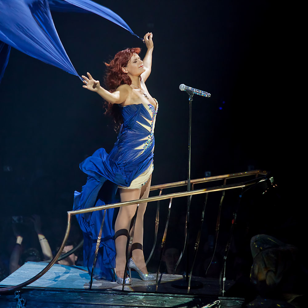 Andrea Berg in concert in Leipzig march 2012